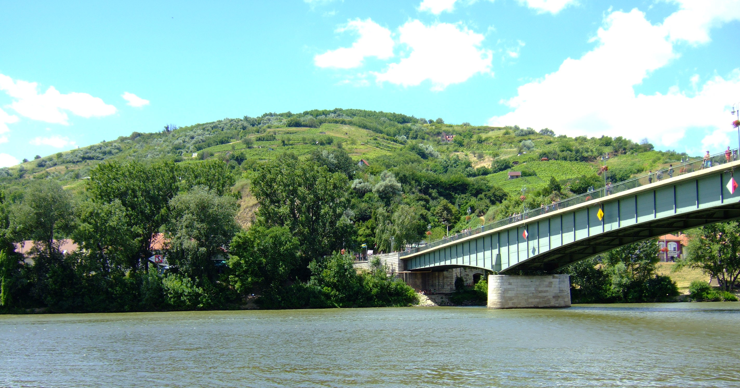 Own photograph